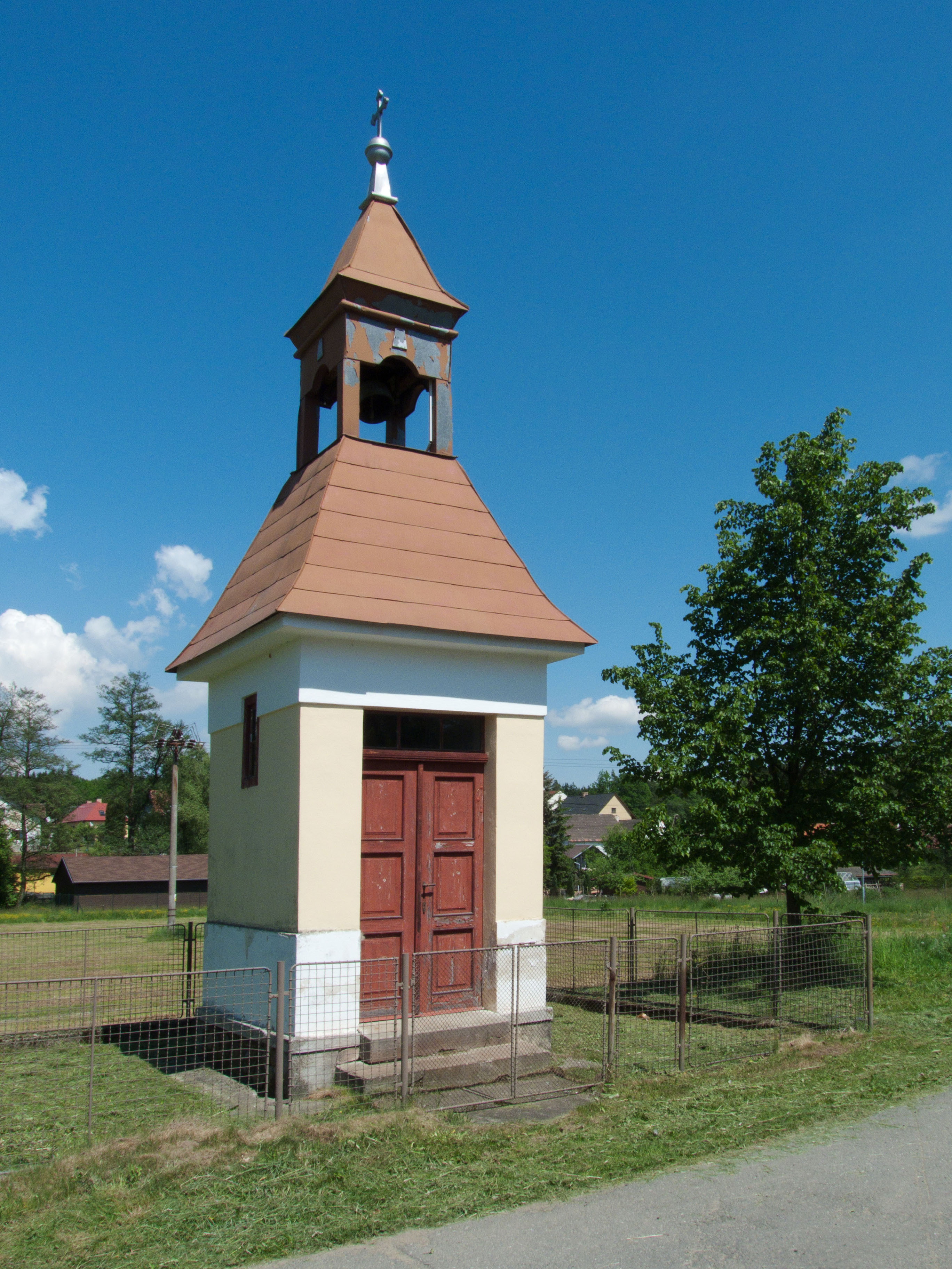 Bell tower in the village of Ústrašice, Tábor District, Czech Republic.